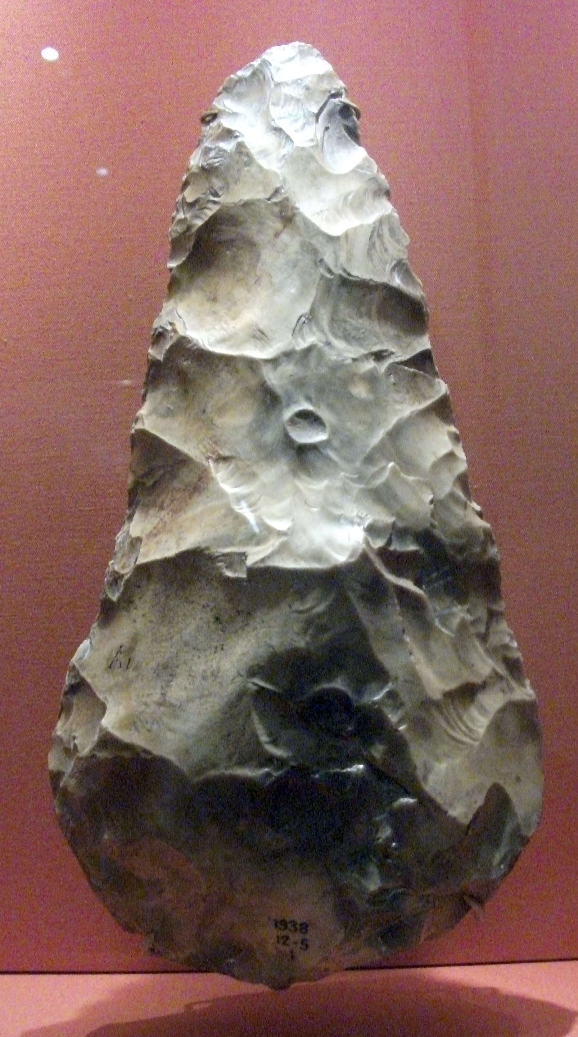 Edmonsham Dorset; handaxe, 600-300,000 BP